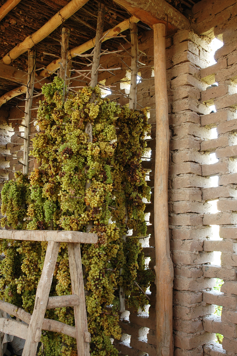 Raisin house, for dying up grapes, internal structure. Taken in Turpan, Xinjiang, China. August 2005.